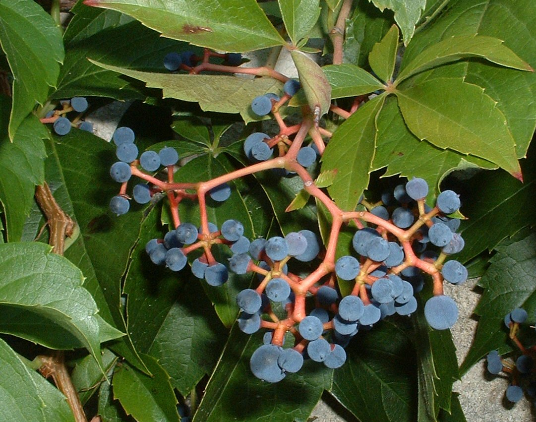 vigne vierge fruits. Fruits of virginia creeper. Parthenocissus quinquefolia L. Taken in France (Garde-Adhemar, Drome)